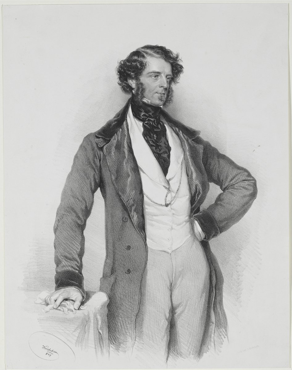 Portrait of Arthur C. Magenis